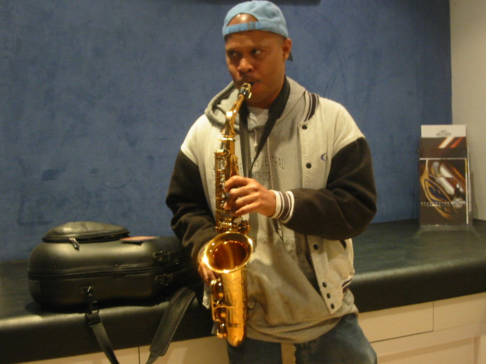 Photo taken at the Selmer Factory in Paris France, July 2004, by Patrícia Magalhães. This photo is not on the Internet as of this date (Aug 10, 06), and permission was given to Steve Coleman to use this photo in any context.